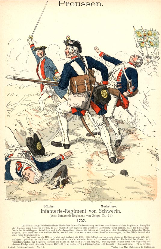 Preußen. Infanterie-Regiment von Schwerin. 1757